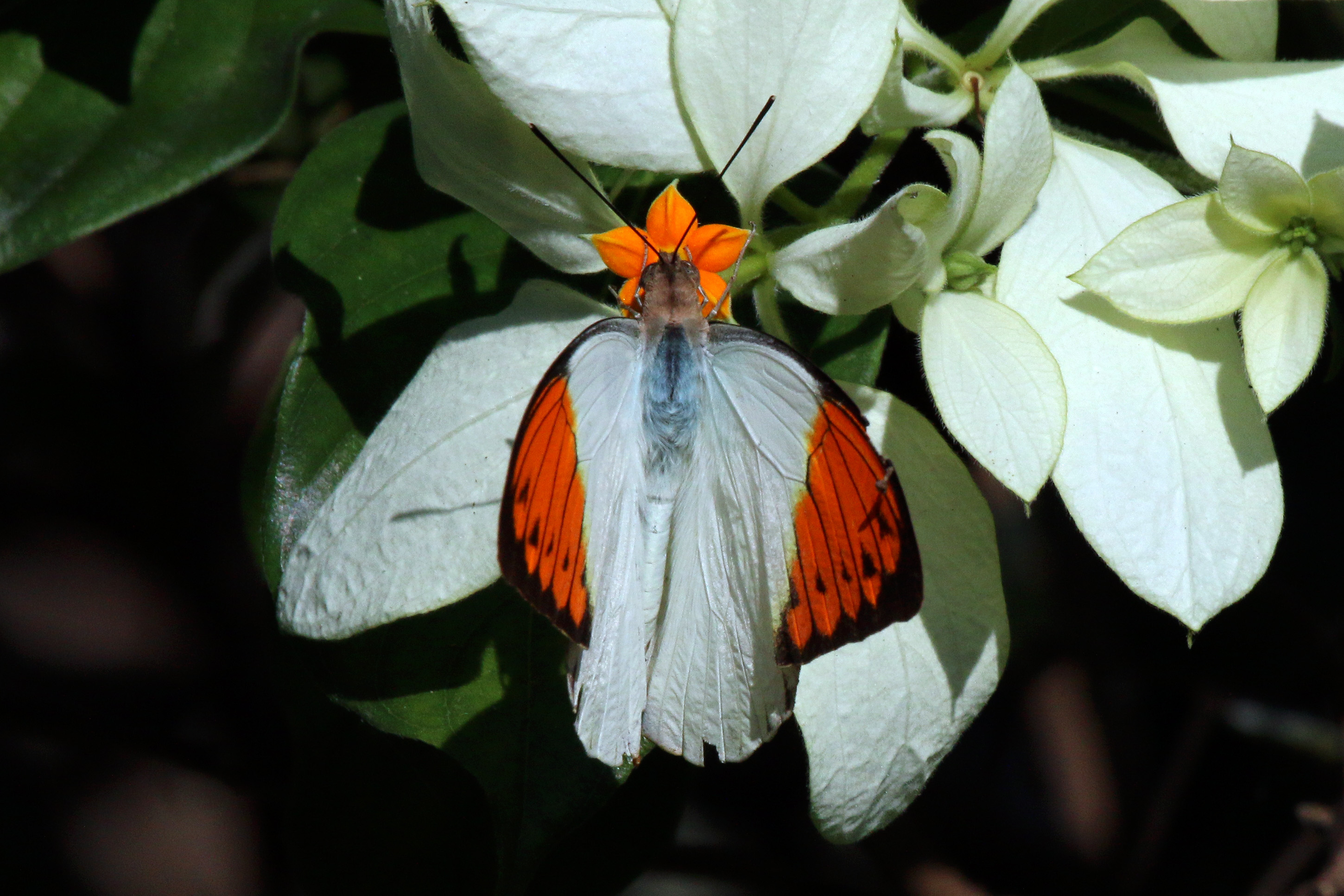 Great orange tip (Hebomoia glaucippe javanensis) male Bali, Indonesia